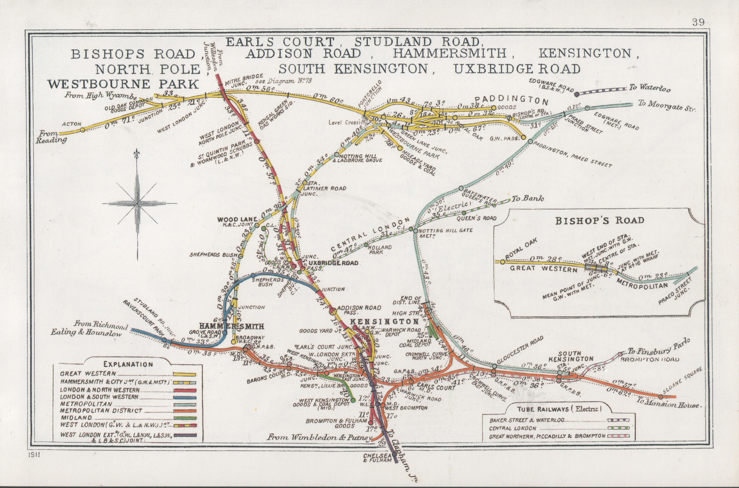 Pre Grouping railway junction around Earls Court, Studland Road, Bishops Road, Addison Road, Hammersmith, Kensington, North Pole, South Kensington, Uxbridge Road & Westbourne Park